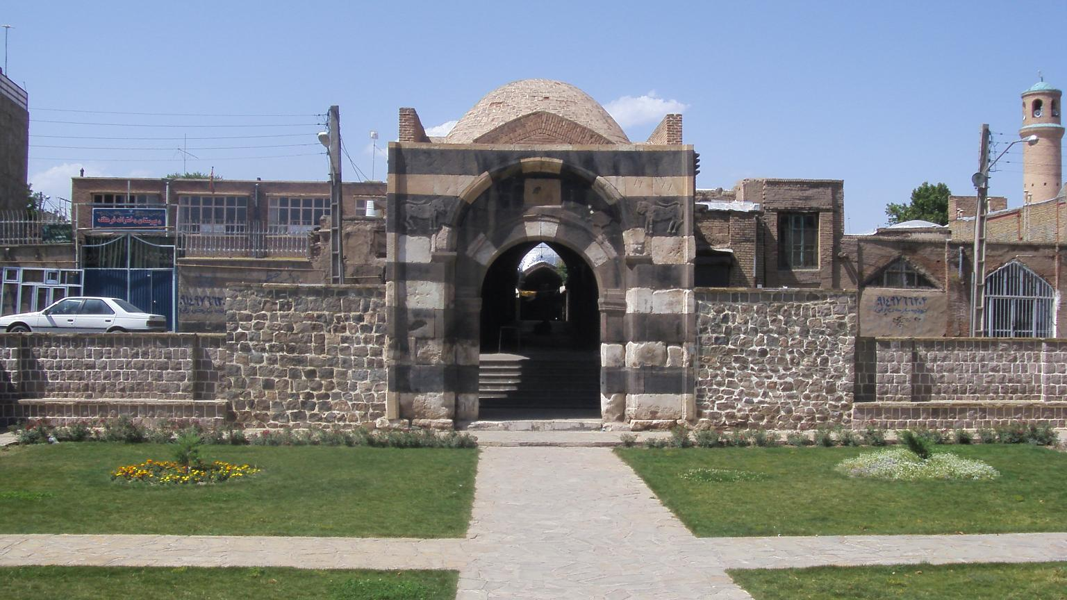 Stone gate of Khoy, Iran